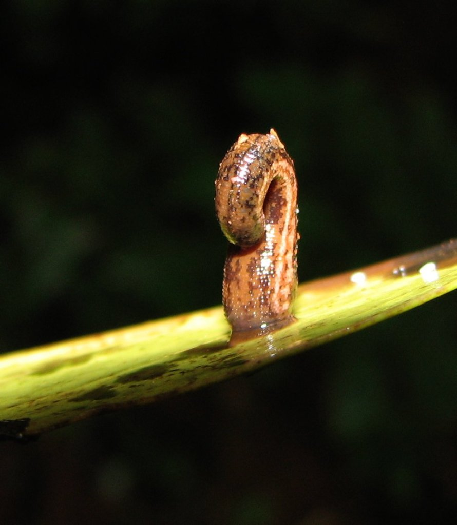 While the leech is on the ground waiting for a suitable host to feed on they dance by bending in all possible directrion hoping to coming in contact with any of the passing by prey.